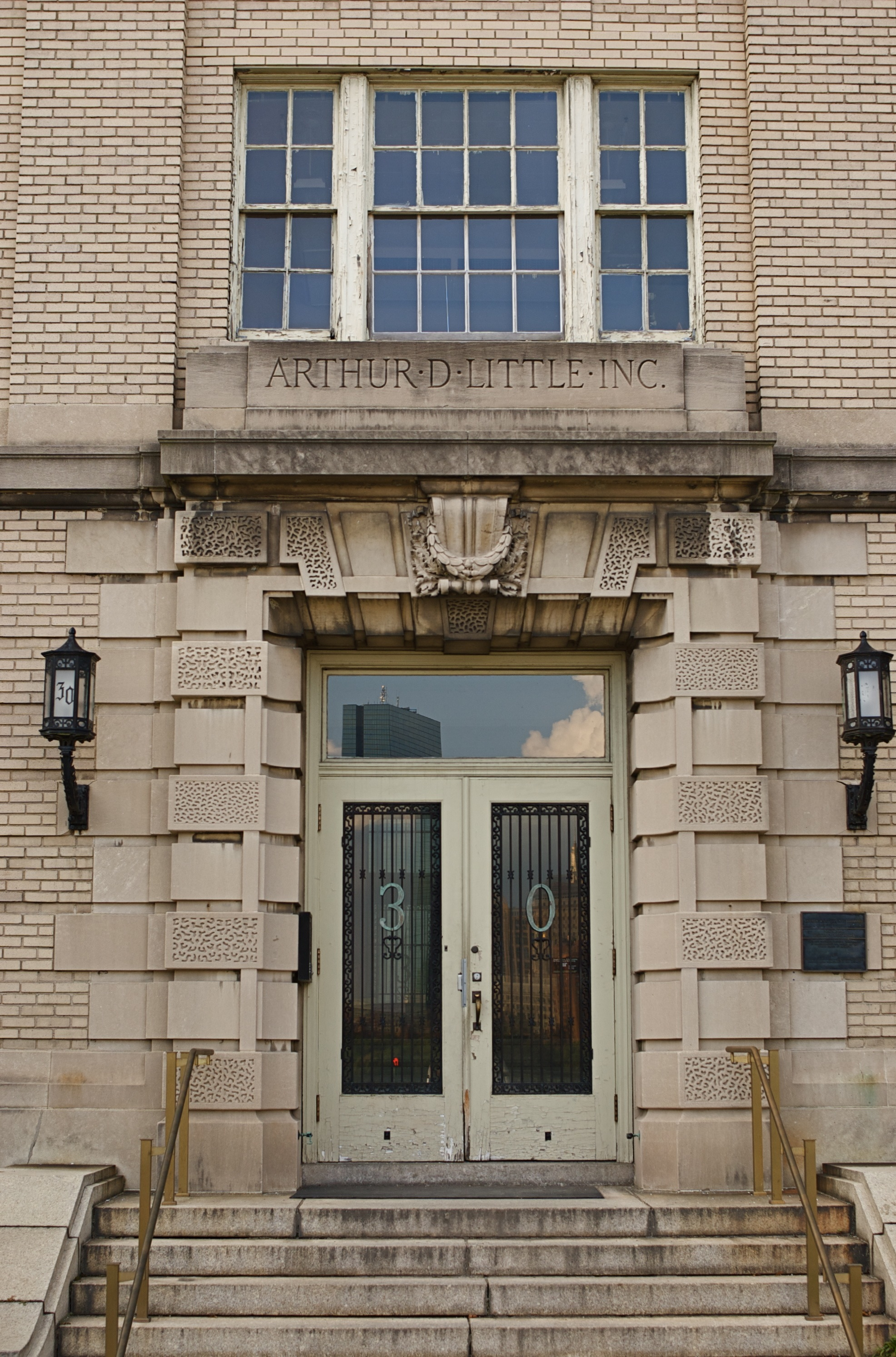 Detail of the Arthur D. Little Building in Cambridge, Massachusetts. This site is on the National Register of Historic Places.